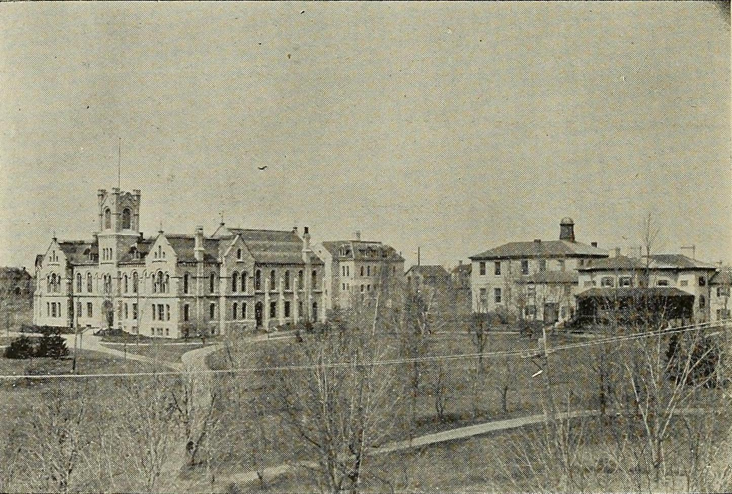 Photograph of Queen's University, in Kingston, Ontario, Canada, published in the Queen's University Journal on or about 21 December 1899